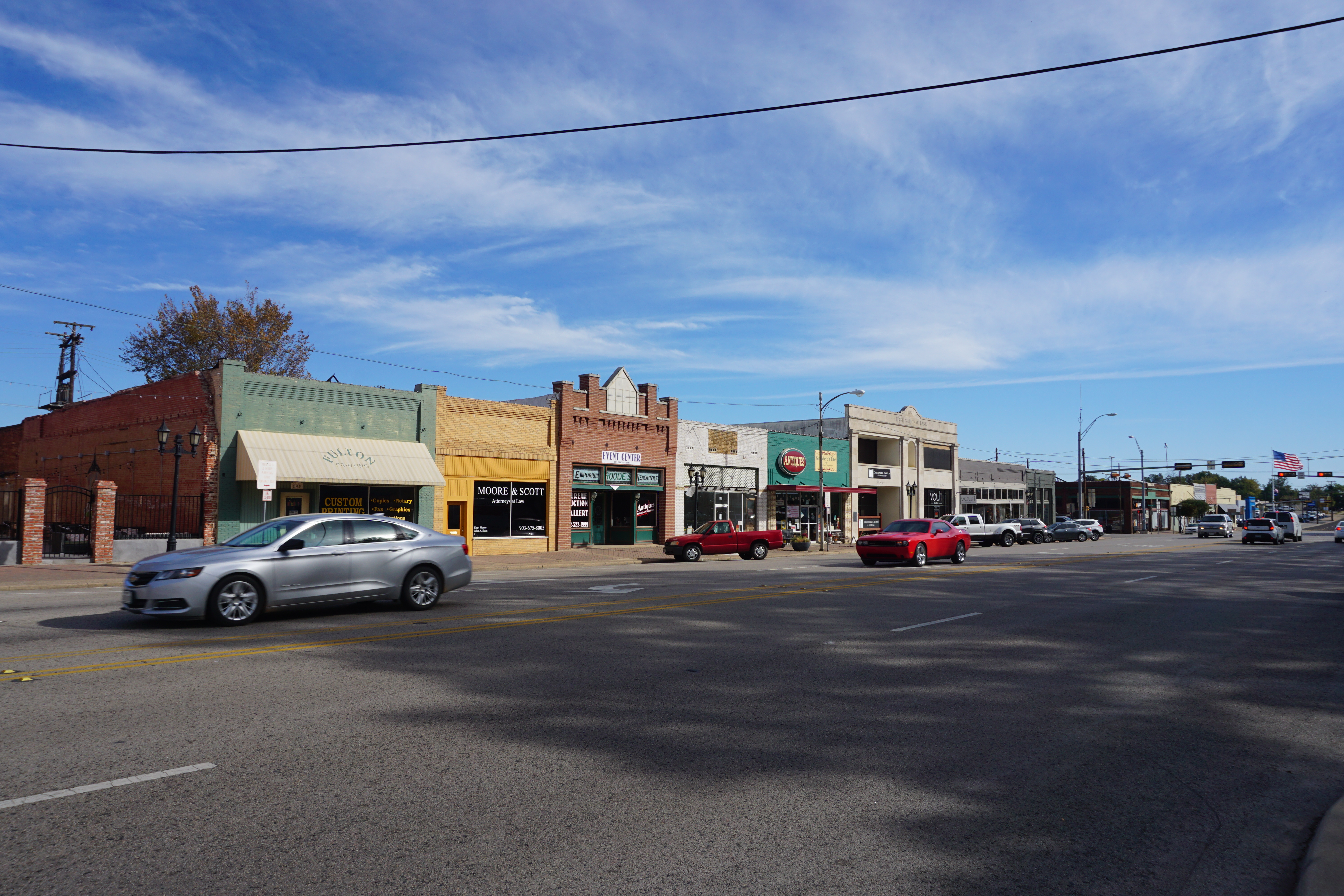 East Tyler Street in Athens, Texas (United States).